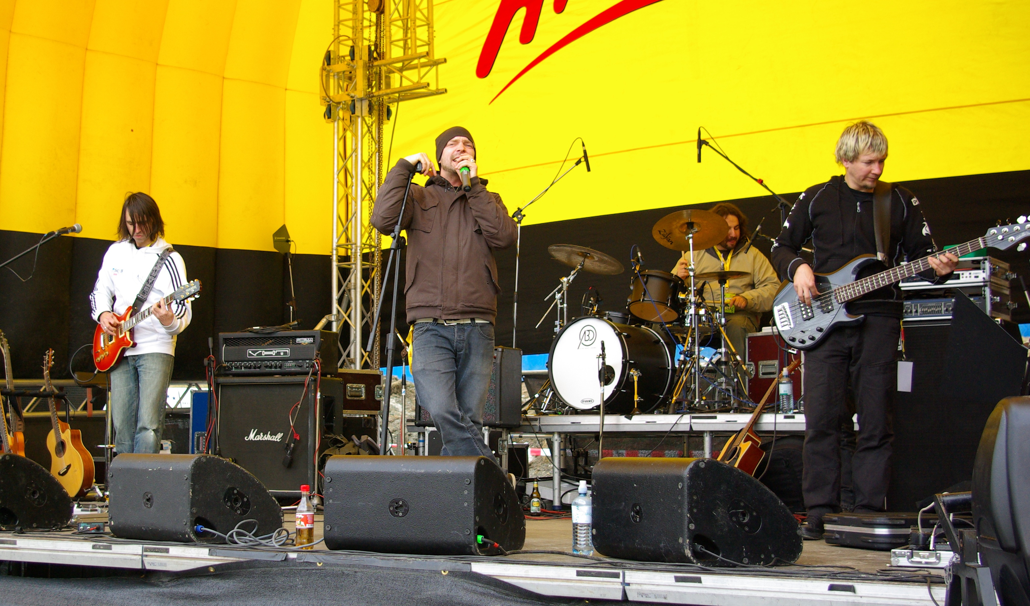 Austrian rock band Excuse Me Moses during the soundcheck for a concert at the Antenne Schulskitag 2008 in Haus im Ennstal on 28 March 2008.